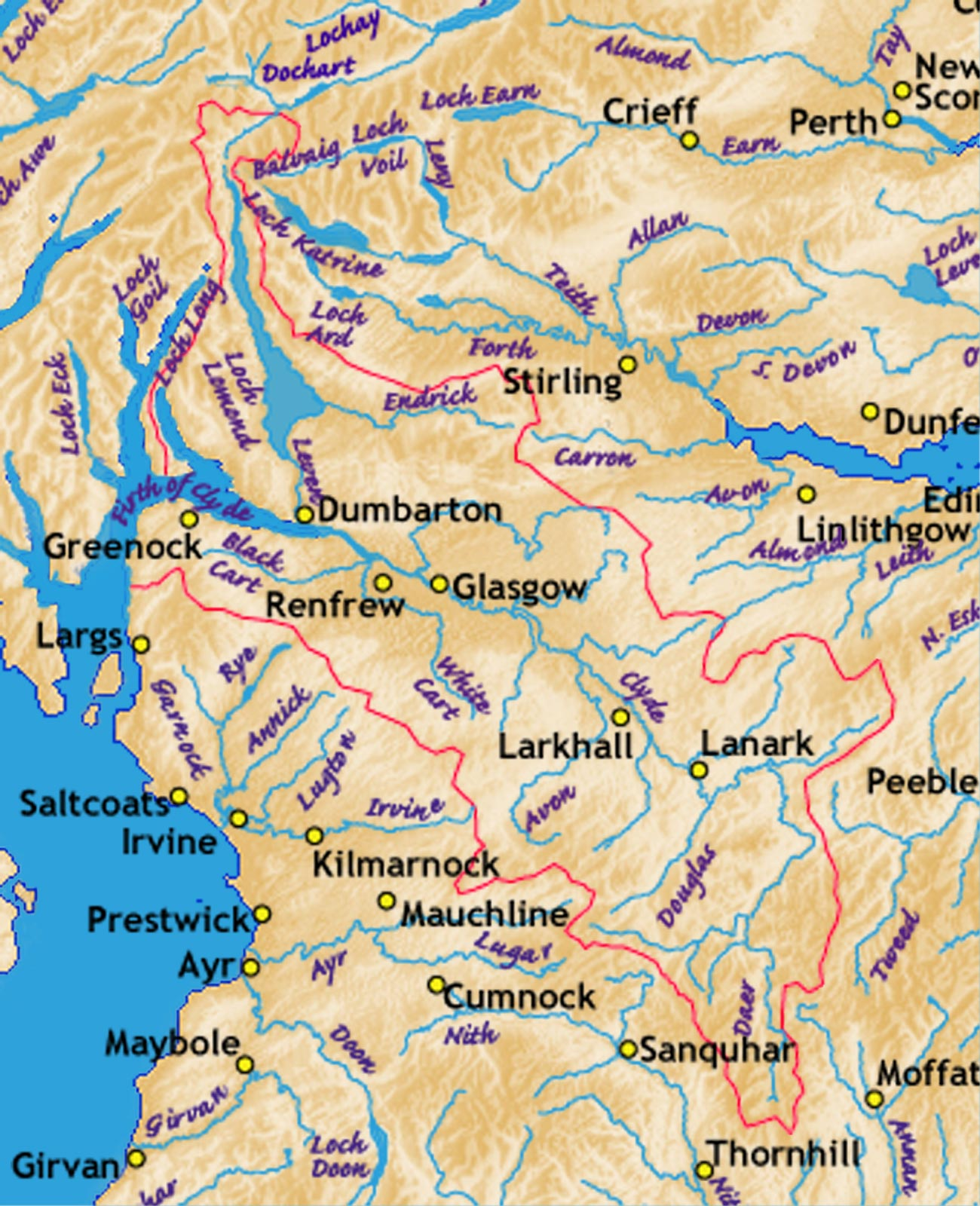 Tributaries of the River Clyde catchment